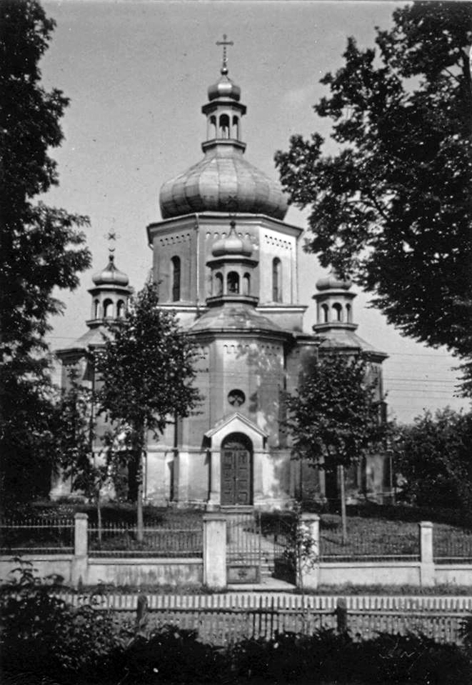 Greek Catholic Church of St. George in Dynów (1910, does not exist)